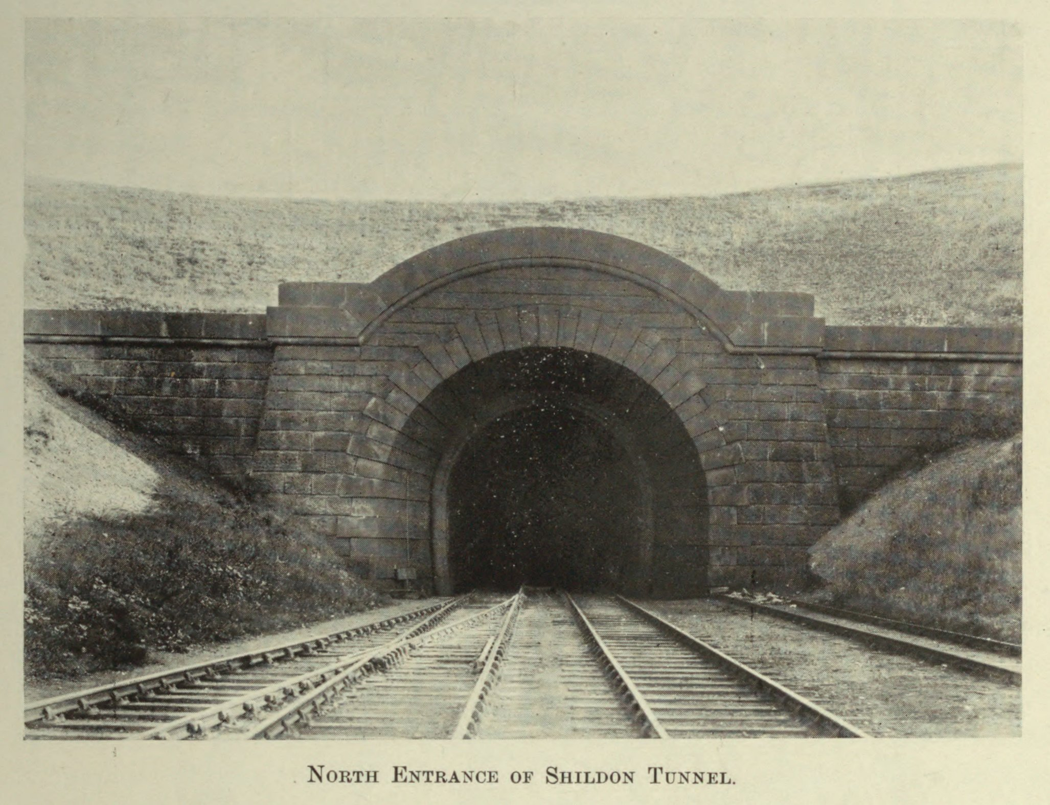 The North entrance of Shildon Tunnel, alternative crop.